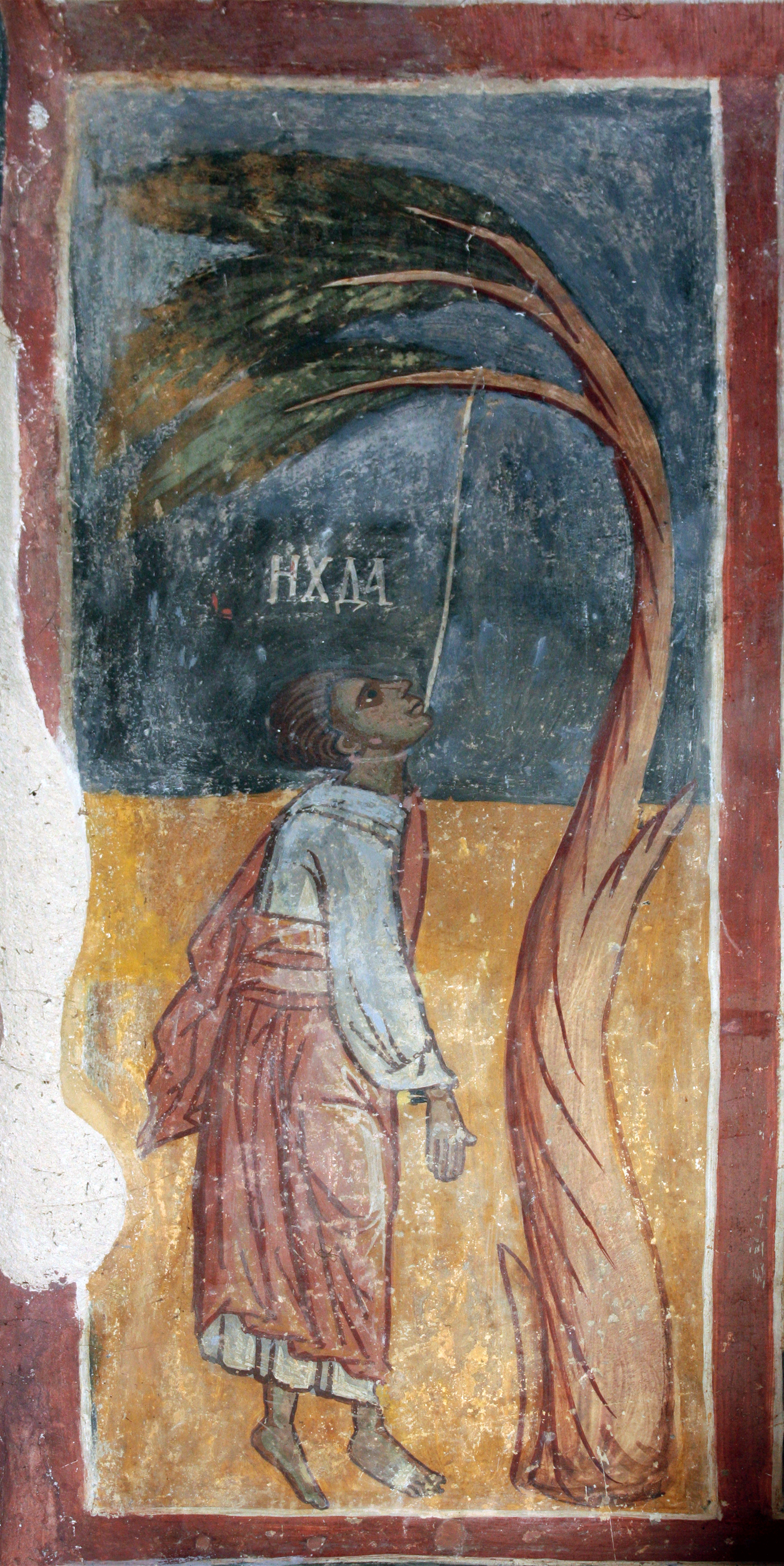 Judas Iscariot from Tarzhishte Monastery, Strupets, Bulgaria, 16th century fresco